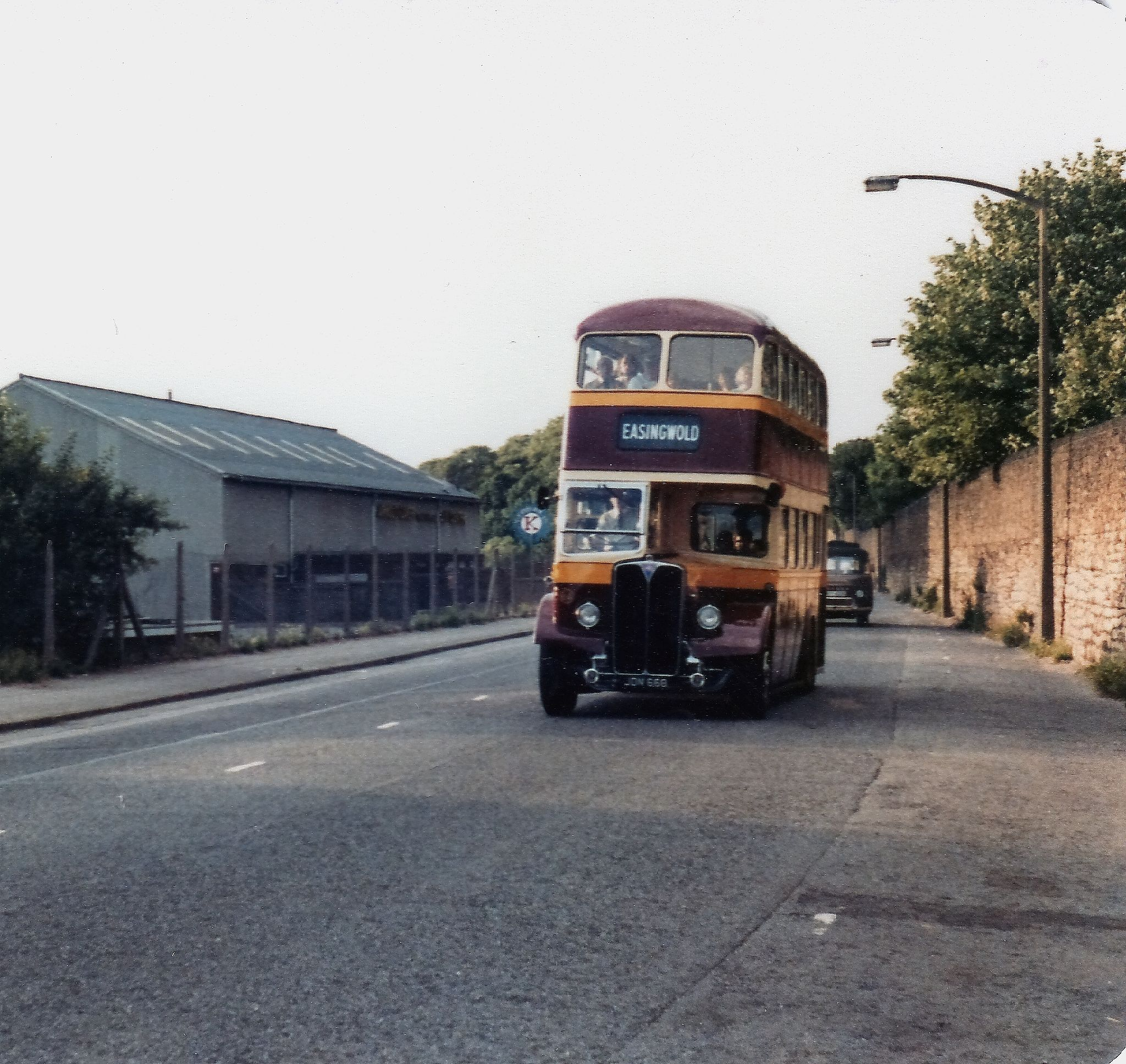 The late Tony Peart,s AEC on Brimington Road Chesterfield